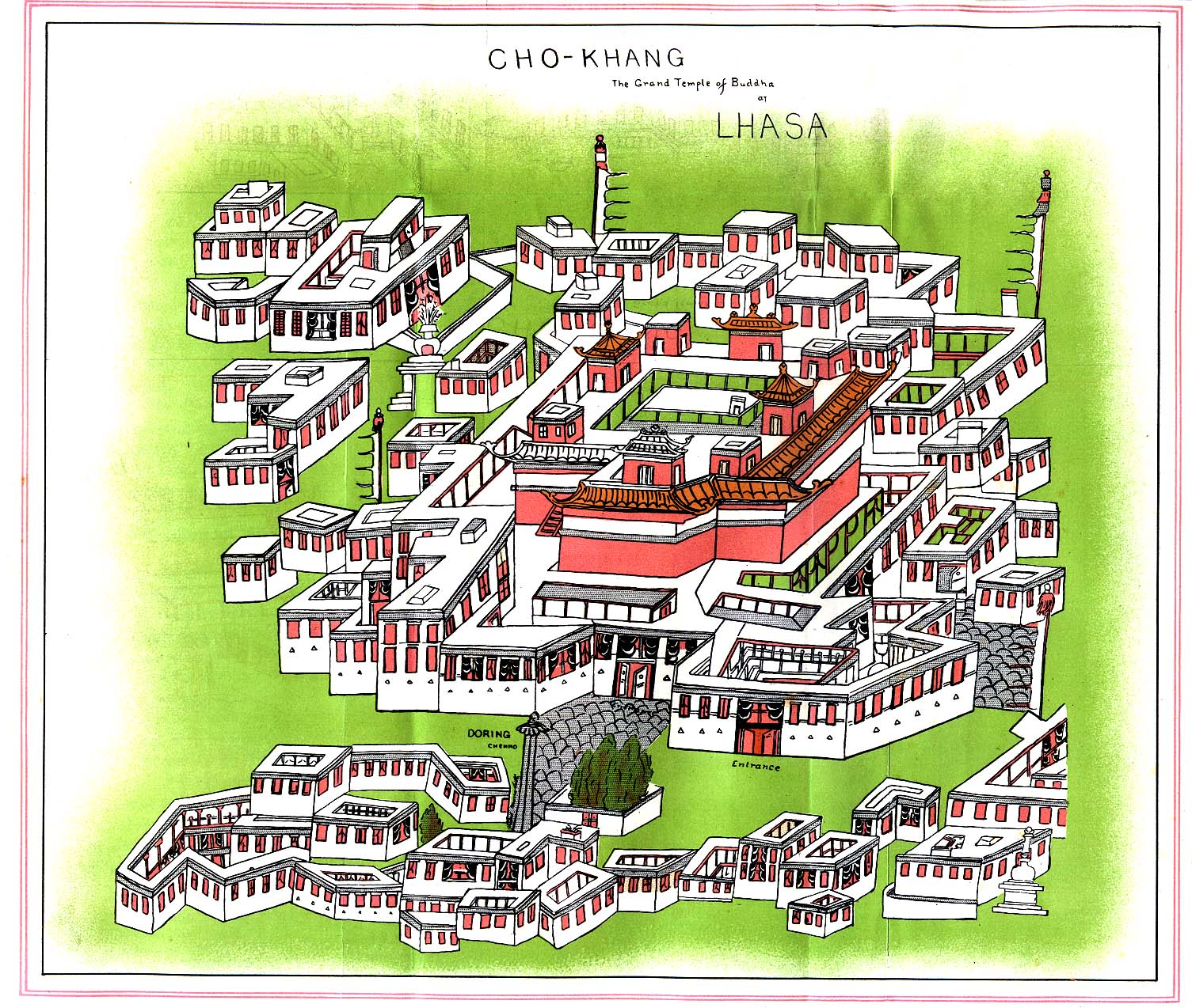 Cho-Khang (Jokhang): The Grand Temple of Buddha at Lhasa, a stylised plan of the building complex, from Journey to Lhasa and Central Tibet by Sarat Chandra Das, 1902.